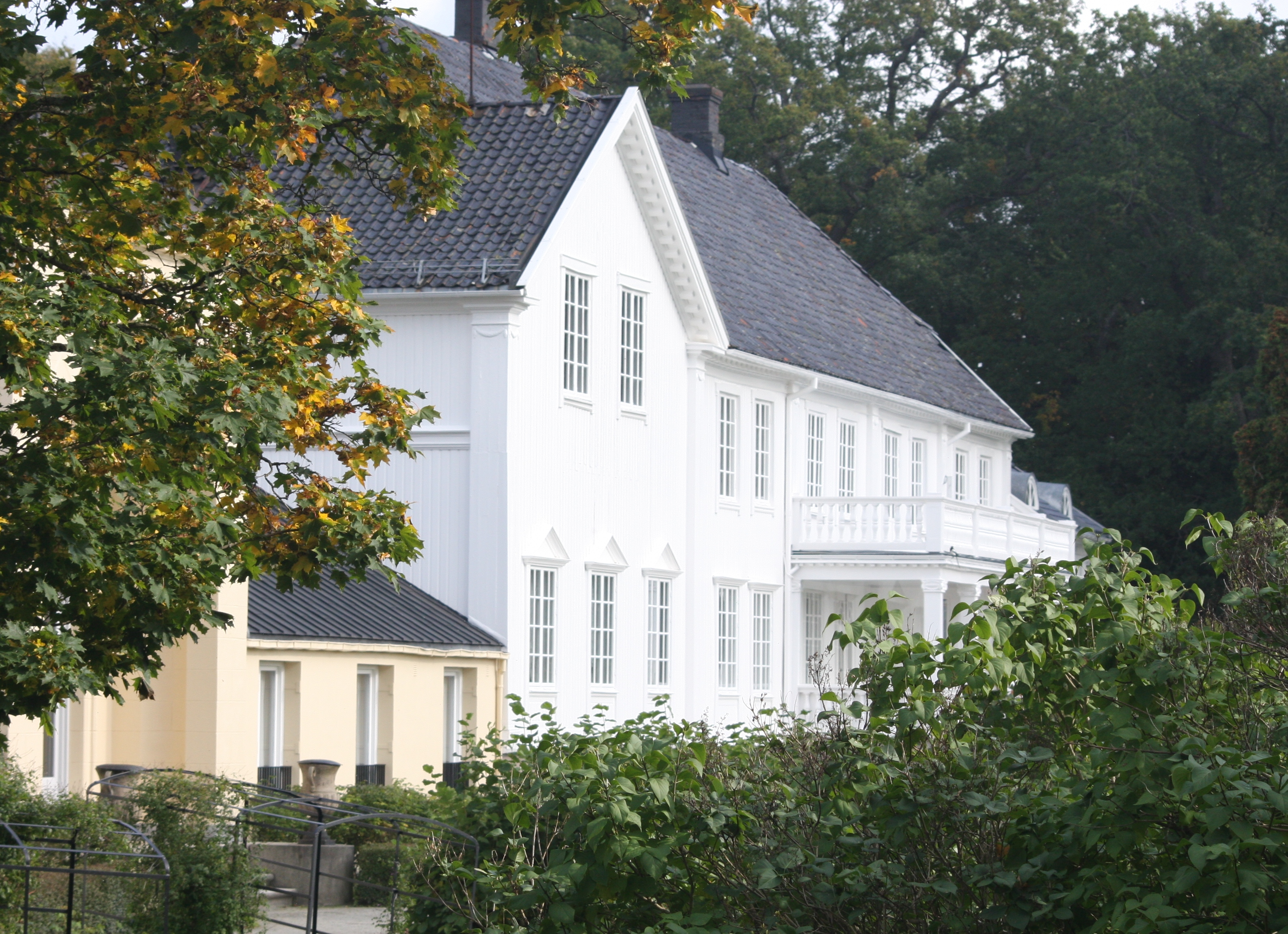 Röd herregaard (Röd manor) in the city of Halden, Norway.It belonged to the Anker family, and was visited by Thomas Robert Malthus in 1799.